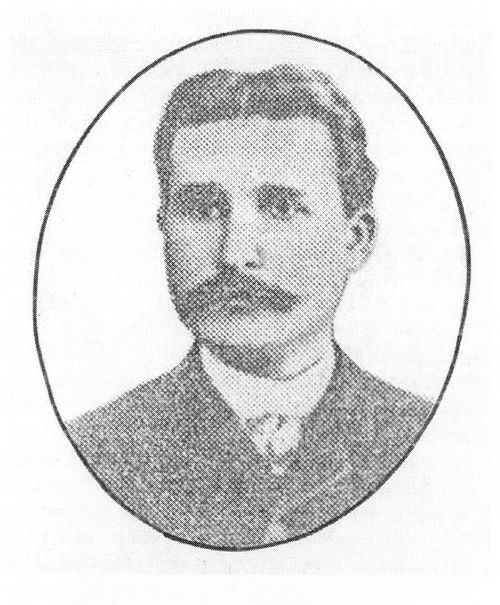 Russian checkers player and journalist Vassily Ivanovich Shoshin (1864-1941)